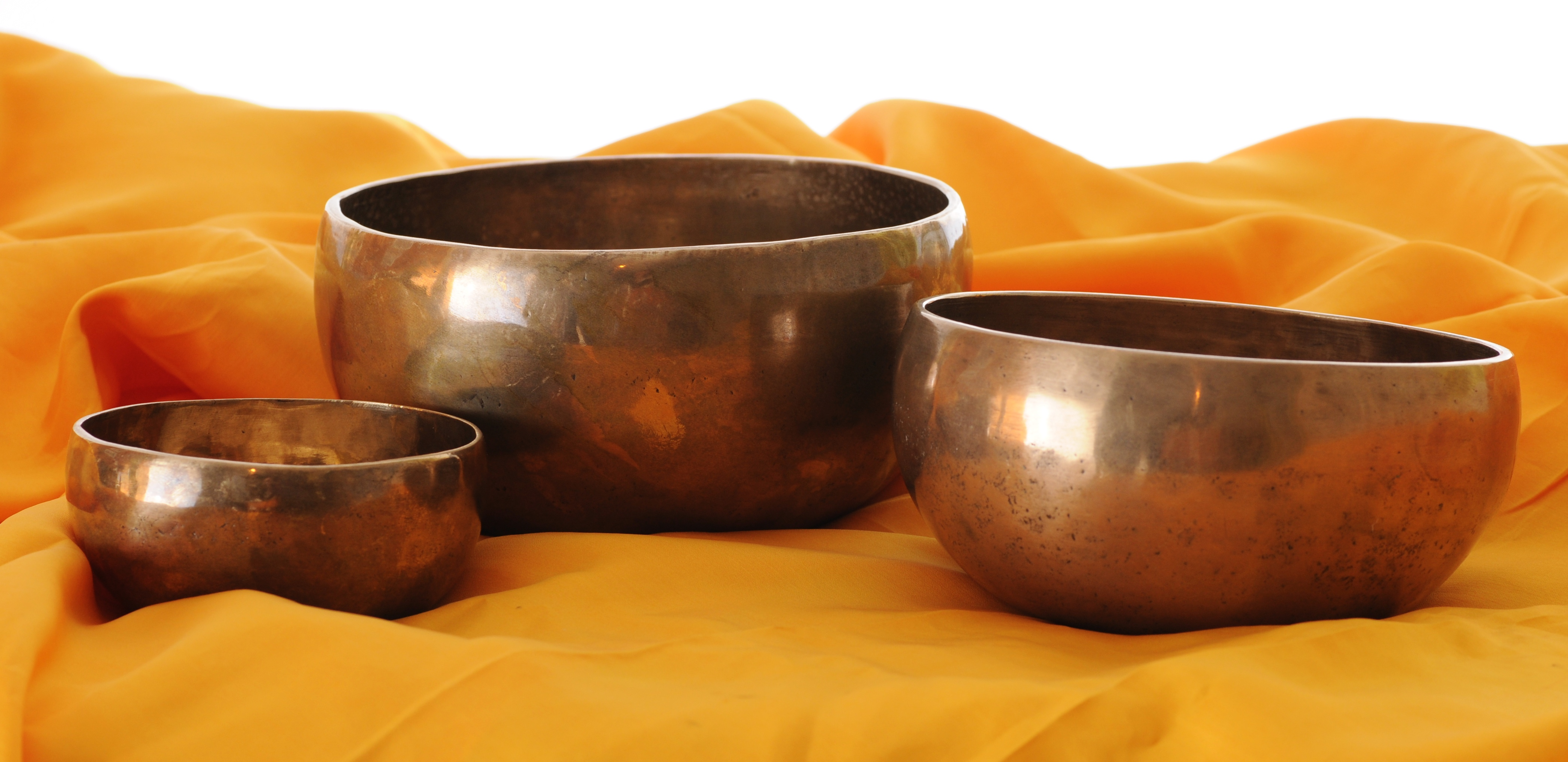 Singing bowls of sizes between 10 and 20 cm